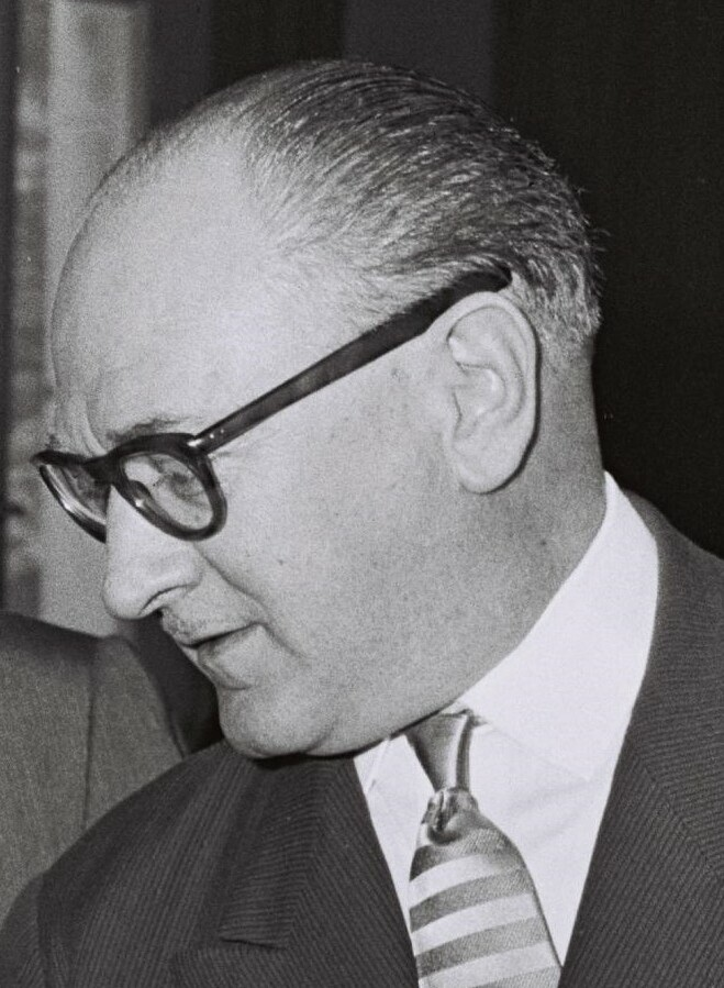 Erich Ollenhauer,Yoseph Almogi, and Guy Mollet (LtR) at the Socialist International in Haifa 1960